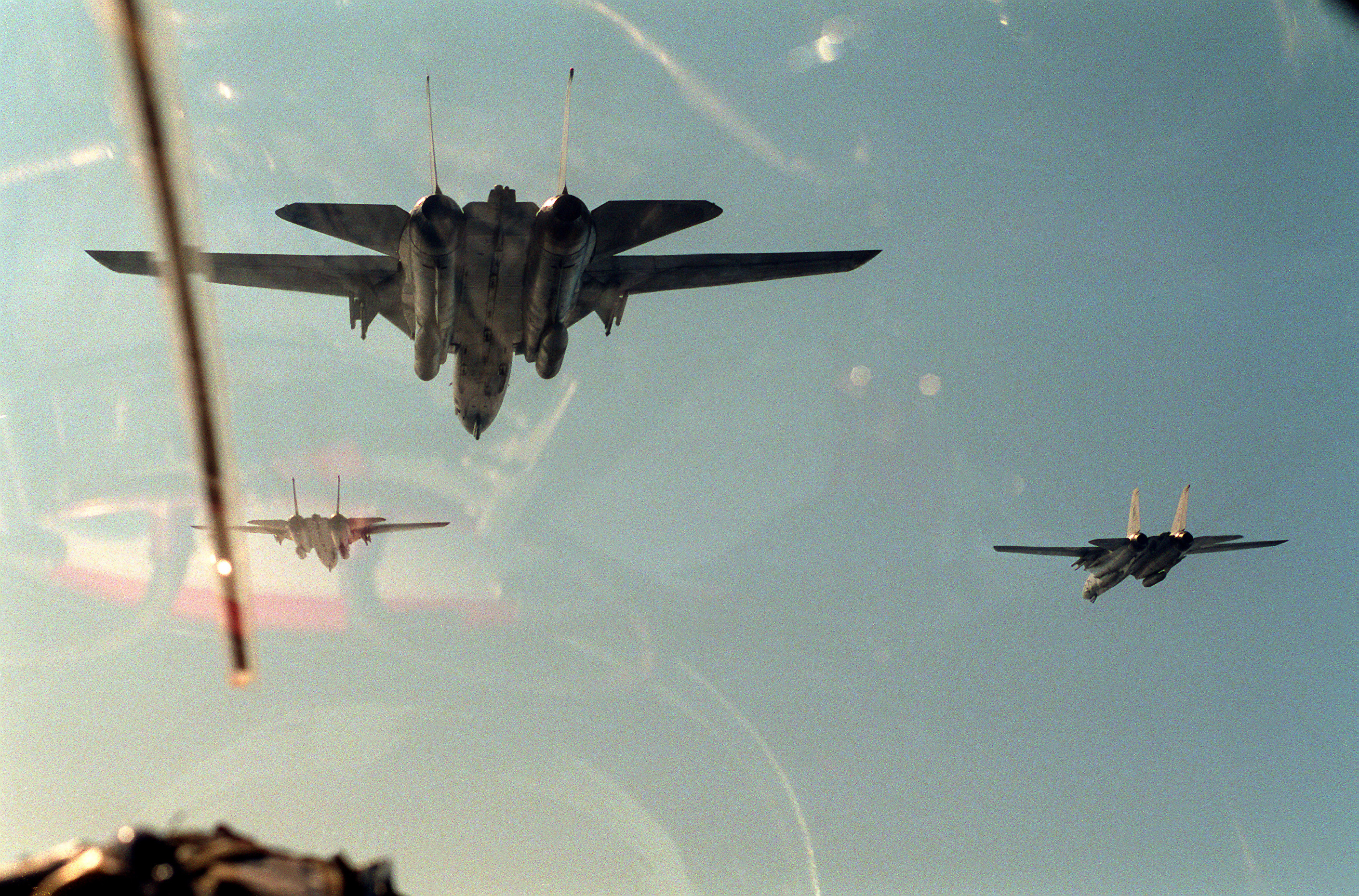 As seen from one of the aircraft, four Fighter Squadron 41 (VF-41) F-14A Tomcat aircraft head into Iraq in support of a strike during Operation Desert Storm.